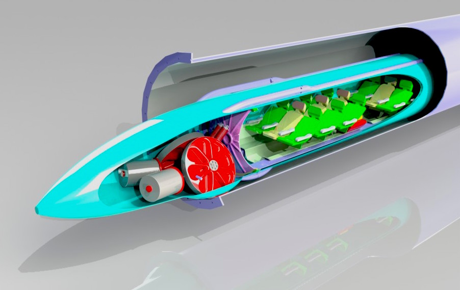 Hyperloop variation Cheetah uses wheels, an airlock door at the end of the passenger cabin, and roll-out seating modules.